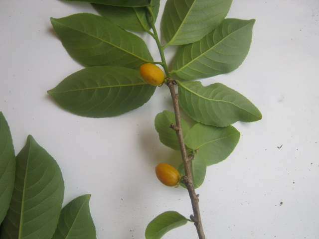 Branch of Casearia elliptica with ripen fruit.